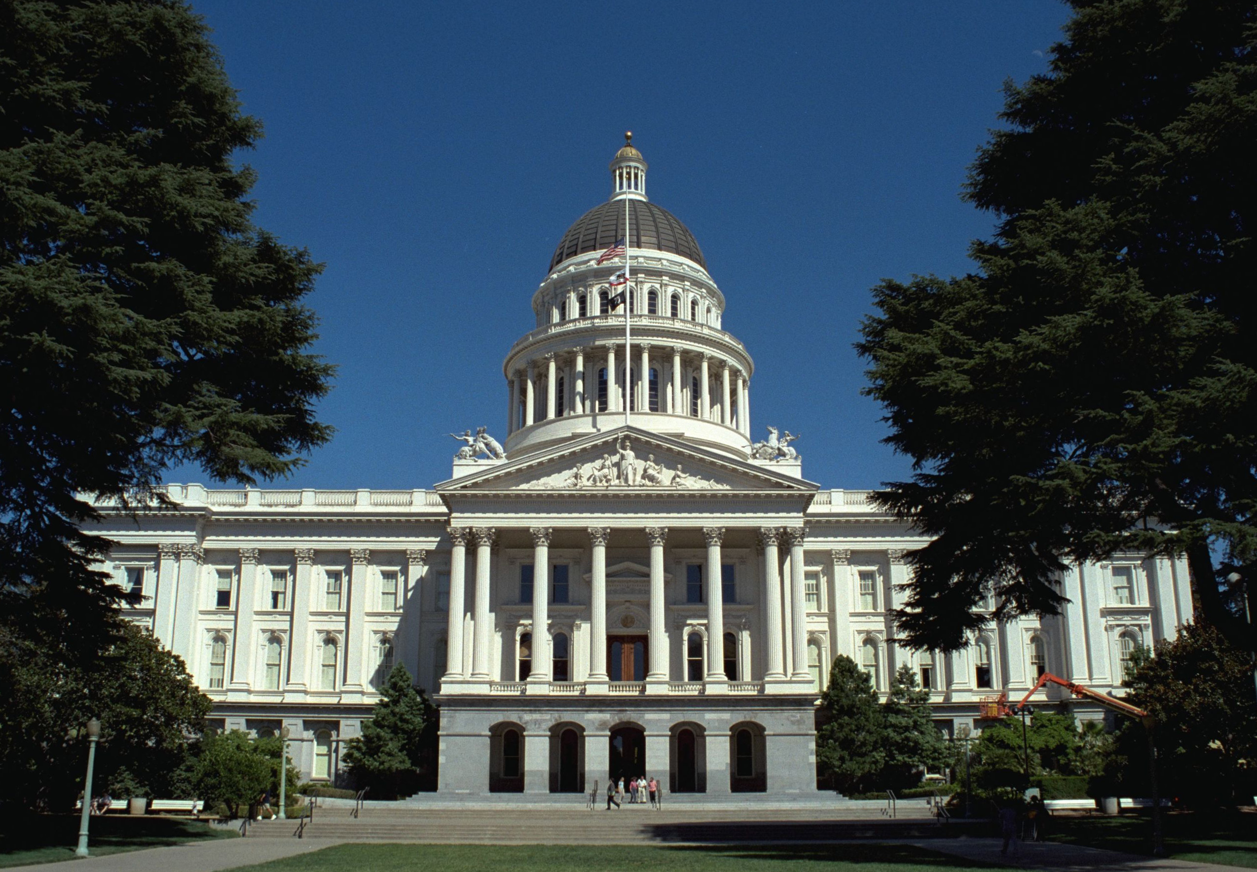 California State Capitol, Sacramento.